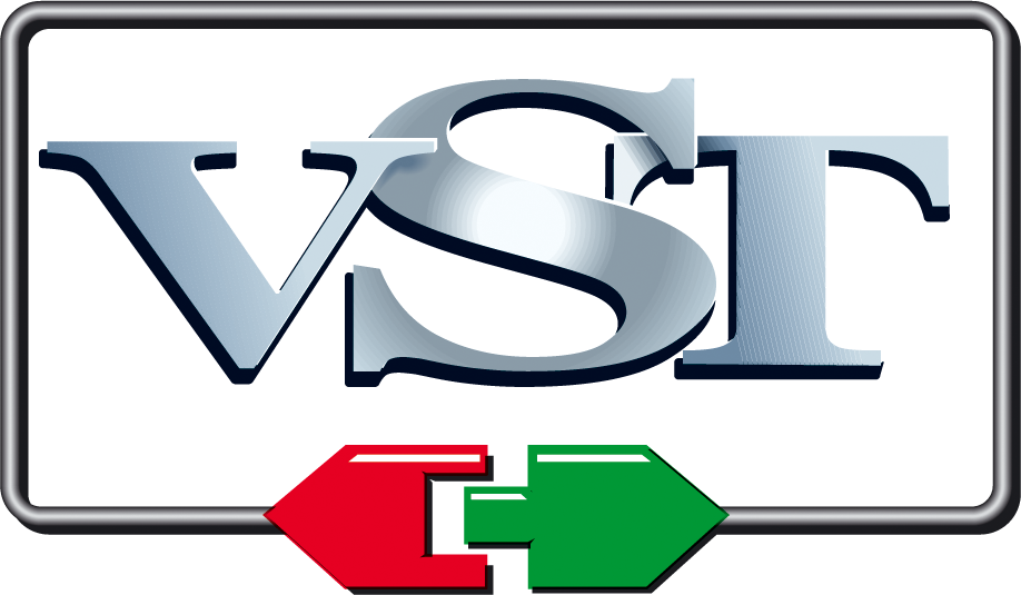 VST allows the integration of virtual effect processors and instruments into your digital audio environment. These can be software recreations of hardware effect units and instruments or new creative effect components in your VST system. All are integrated seamlessly into the host application. From the PPG wavetable synthesizer to Steinberg's HALion sampler: all are routed directly to the VST mixer in Cubase or Nuendo.